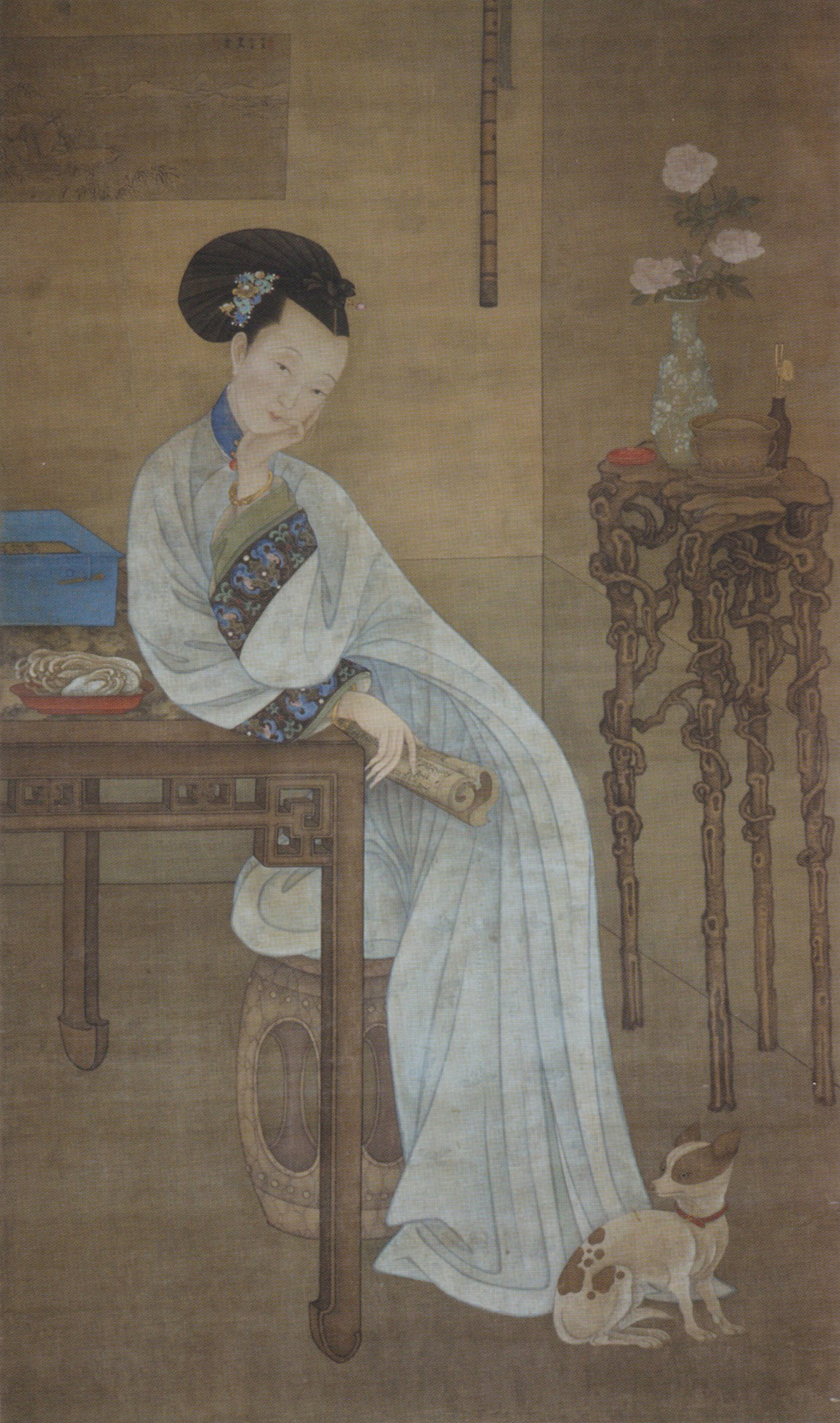 Leng Mei. Beautiful Woman in an Interior with a Dog. Dated 1724. Hanging scroll, ink and colors on silk. 175 x 194 cm. Tianjin Museum.Tianjin Museum